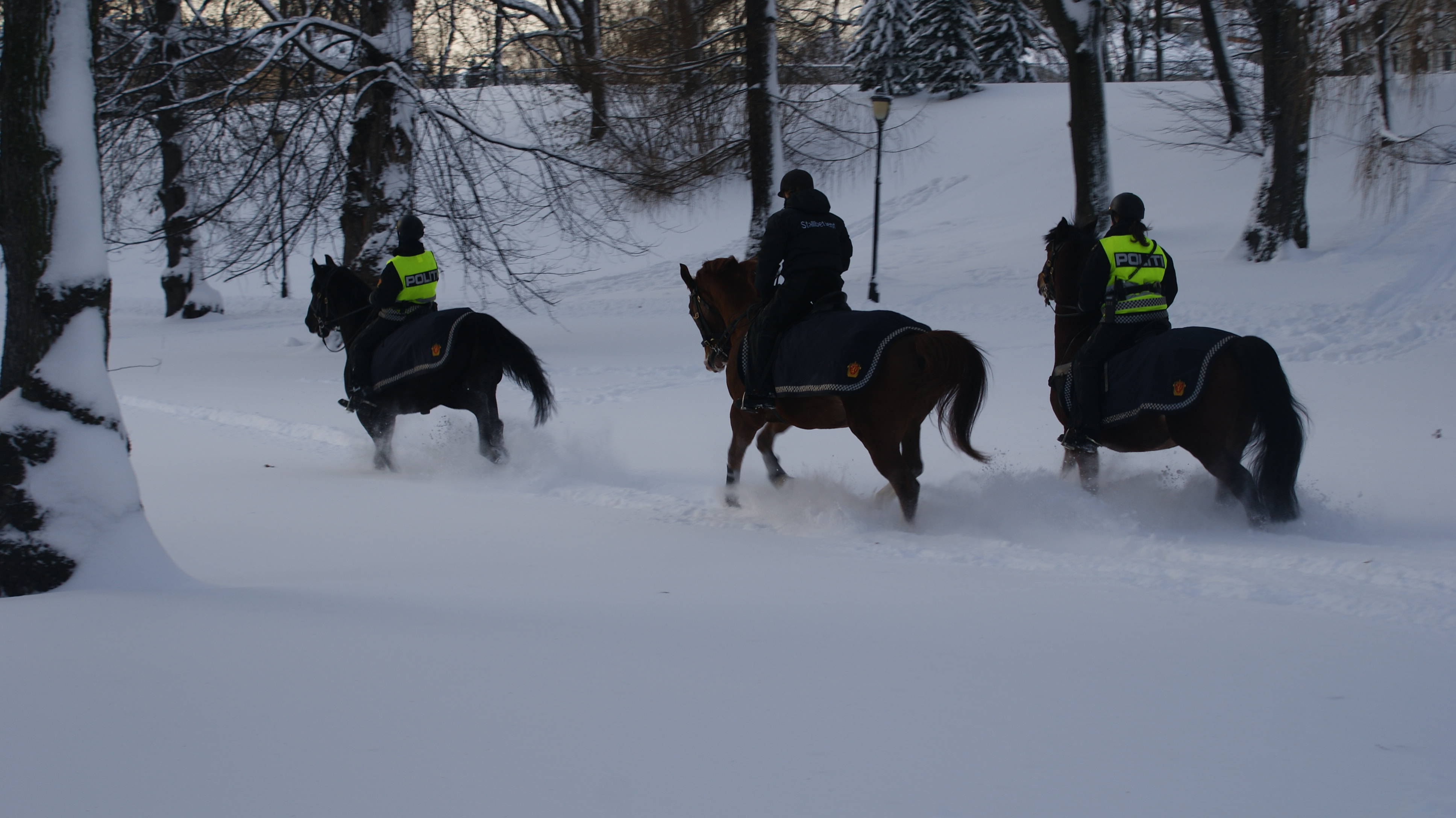 Mounted patrol of Norwegian Police. Slottsparken, Oslo, Norway.